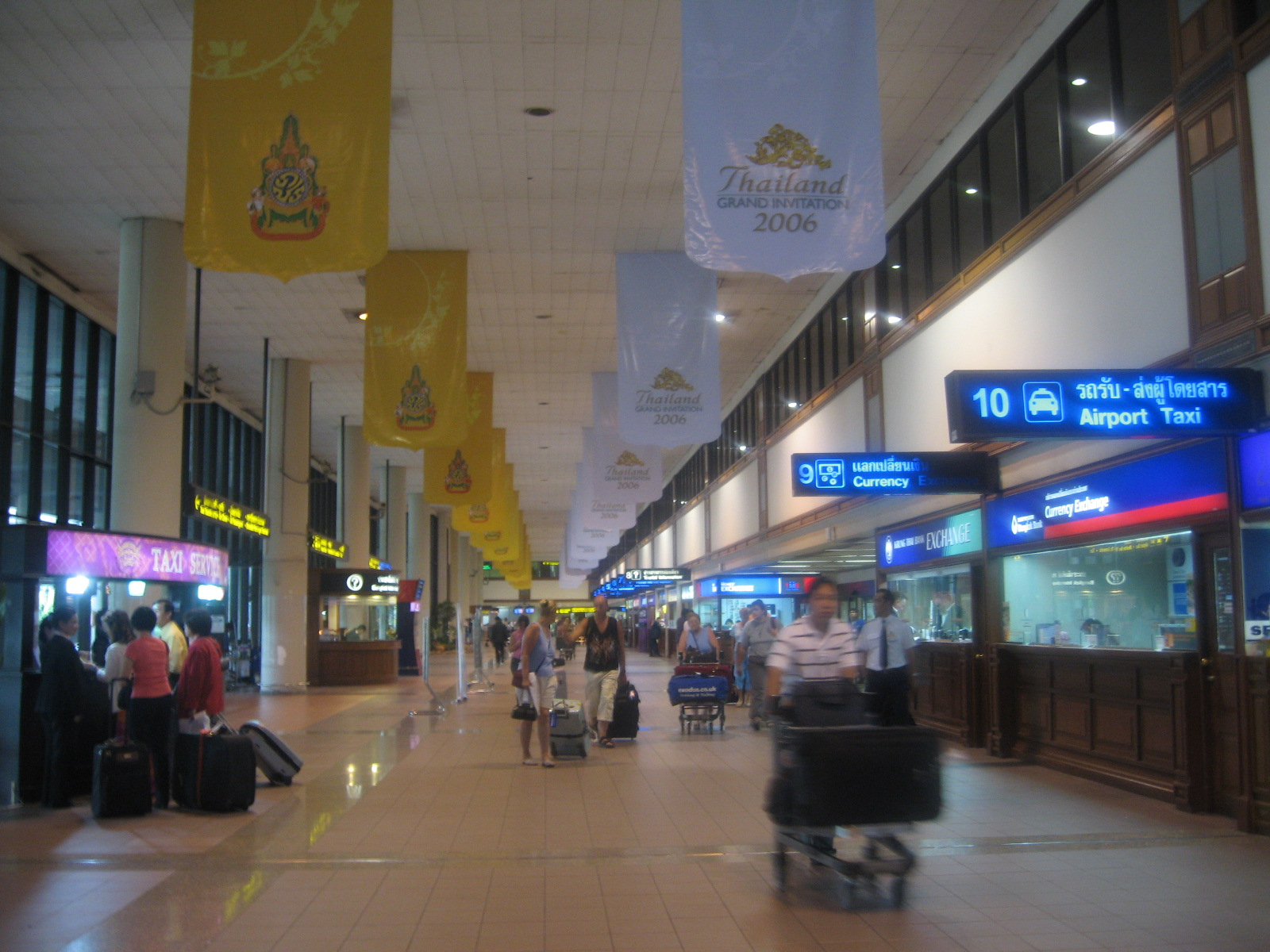 Bangkok International Airport (Don Muang), Arrival Hall.